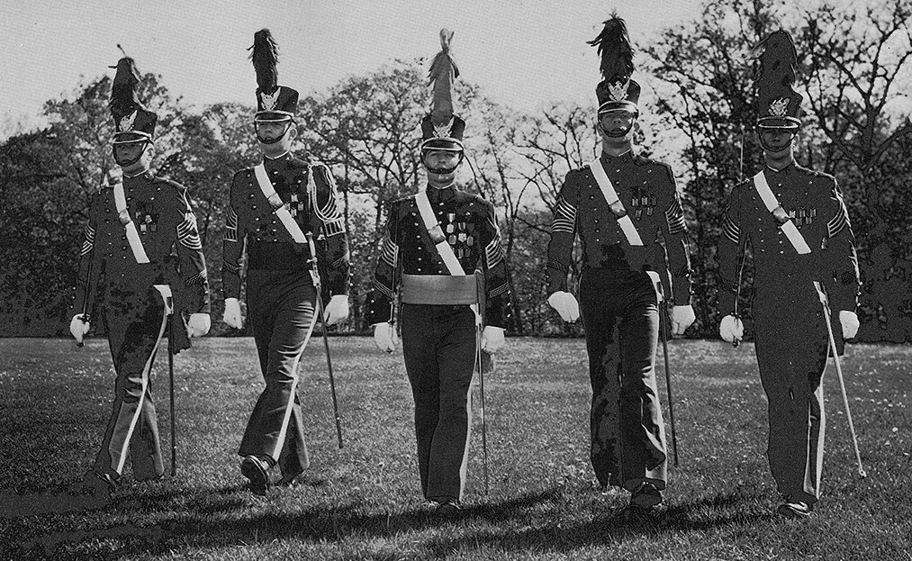 Five students in uniform in the 1964 New York Military Academy yearbook, including Donald Trump (second from left).